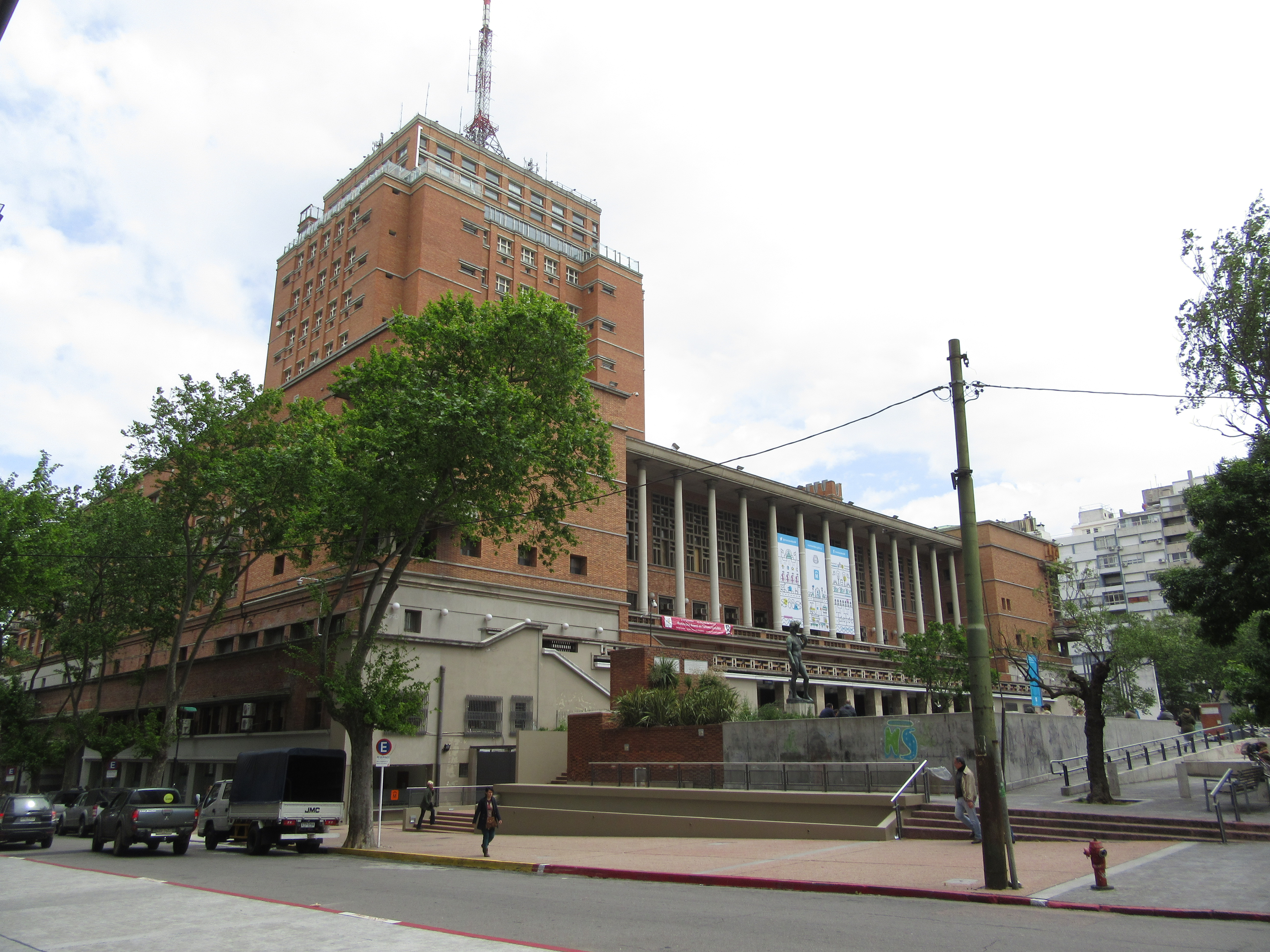 Montevideo